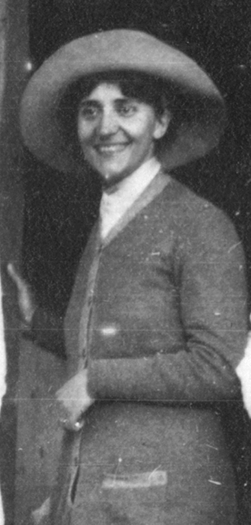 Hélène Vittiviglia-Leune in Filippiada, December 1912.